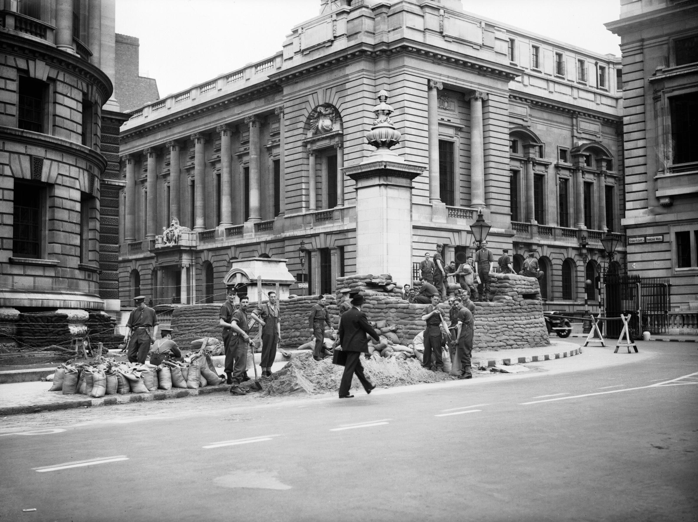 Troops from the Grenadier Guards constructing sandbag defences around government buildings on the corner of Horse Guards Road, Great George Street and Birdcage Walk, London, May 1940. Troops from the Grenadier Guards constructing sandbag defences around government buildings on the corner of Horse Guards Road, Great George Street and Birdcage Walk, London, May 1940.